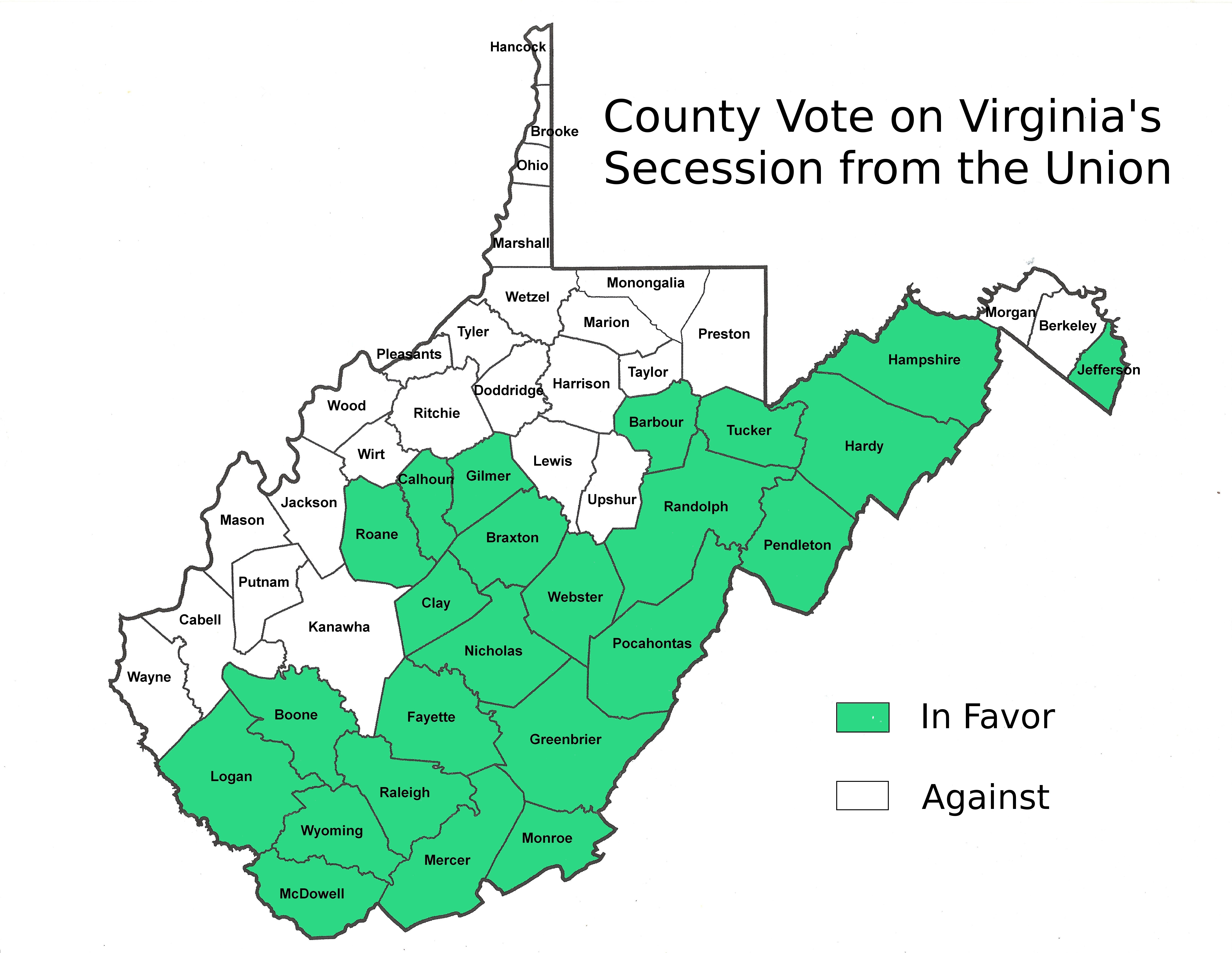 A recreation of the map on county voting in West Virginia on Virginia's ordinance of secession from the United States on May 23, 1861, as it appears in Richard Orr Curry's "A House Divided, A Study of Statehood Politics & the Copperhead Movement in West Virginia". Univ. of Pittsburgh, 1964, page 49.